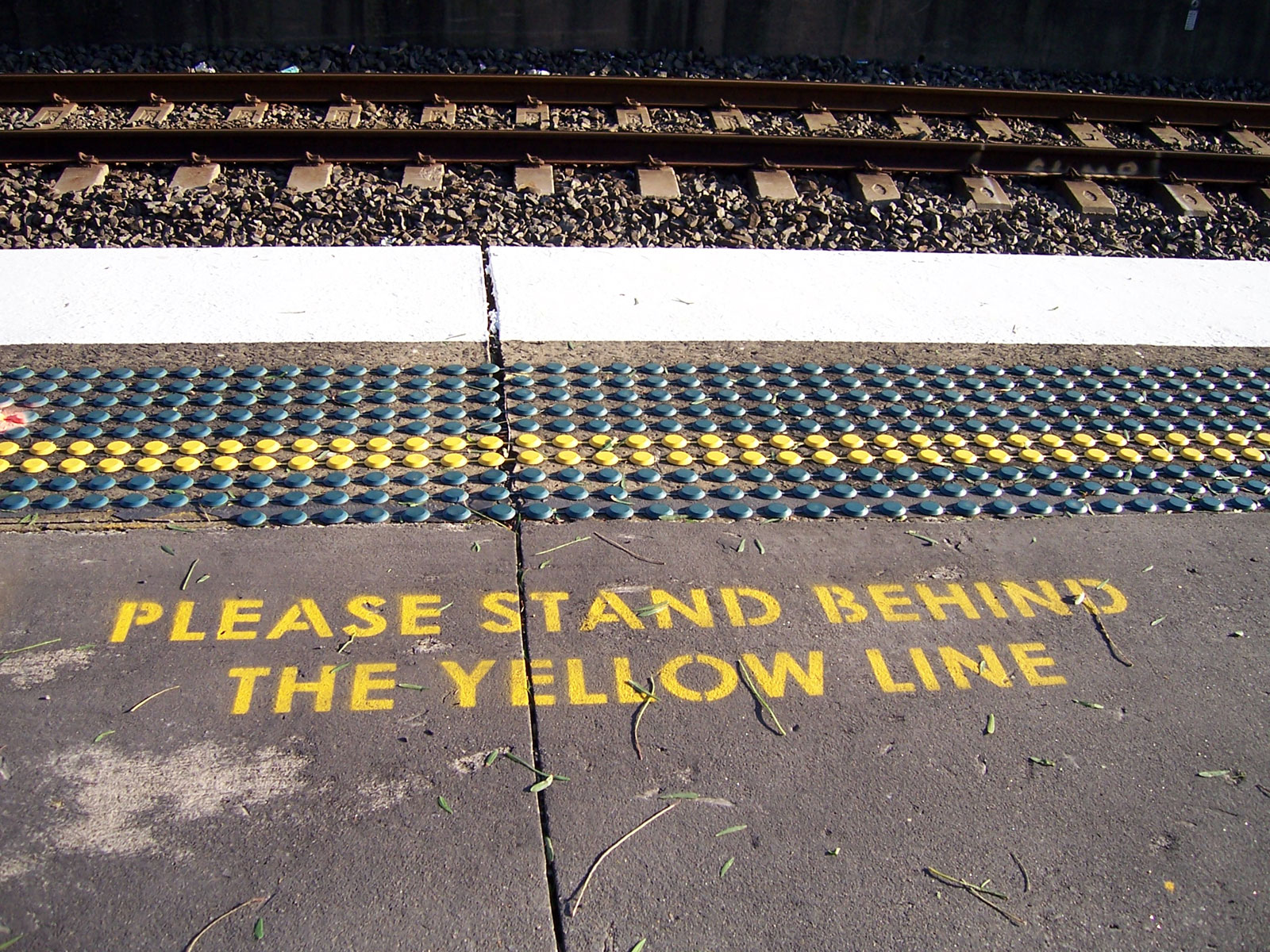 Typical "Please stand behind the yellow line" message and rubber strips on a CityRail platform. This photo was taken at Burwood railway station, Sydney. Taken by Enoch Lau on 12 March 2006. As a courtesy, please let me know if you alter this image or this image description page. Original filename was 100_1499.JPG.